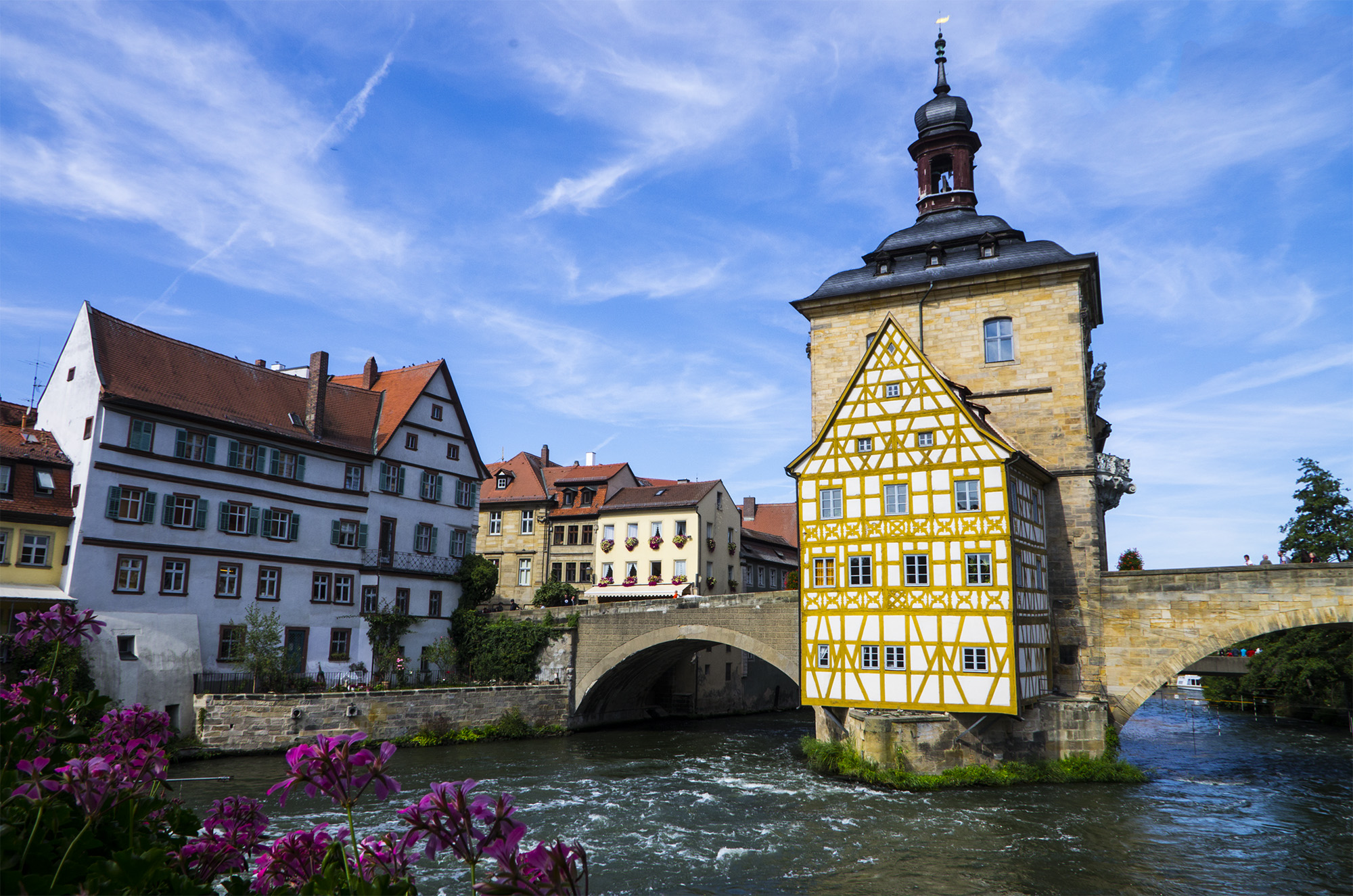 Bamberg town hall from opposite bridge